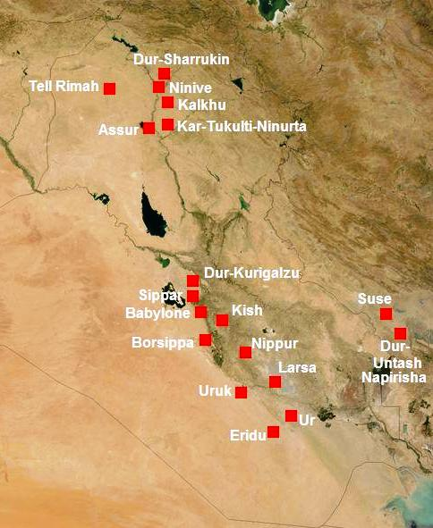 Location of the known ziggurats of Mesopotamia and Elam.